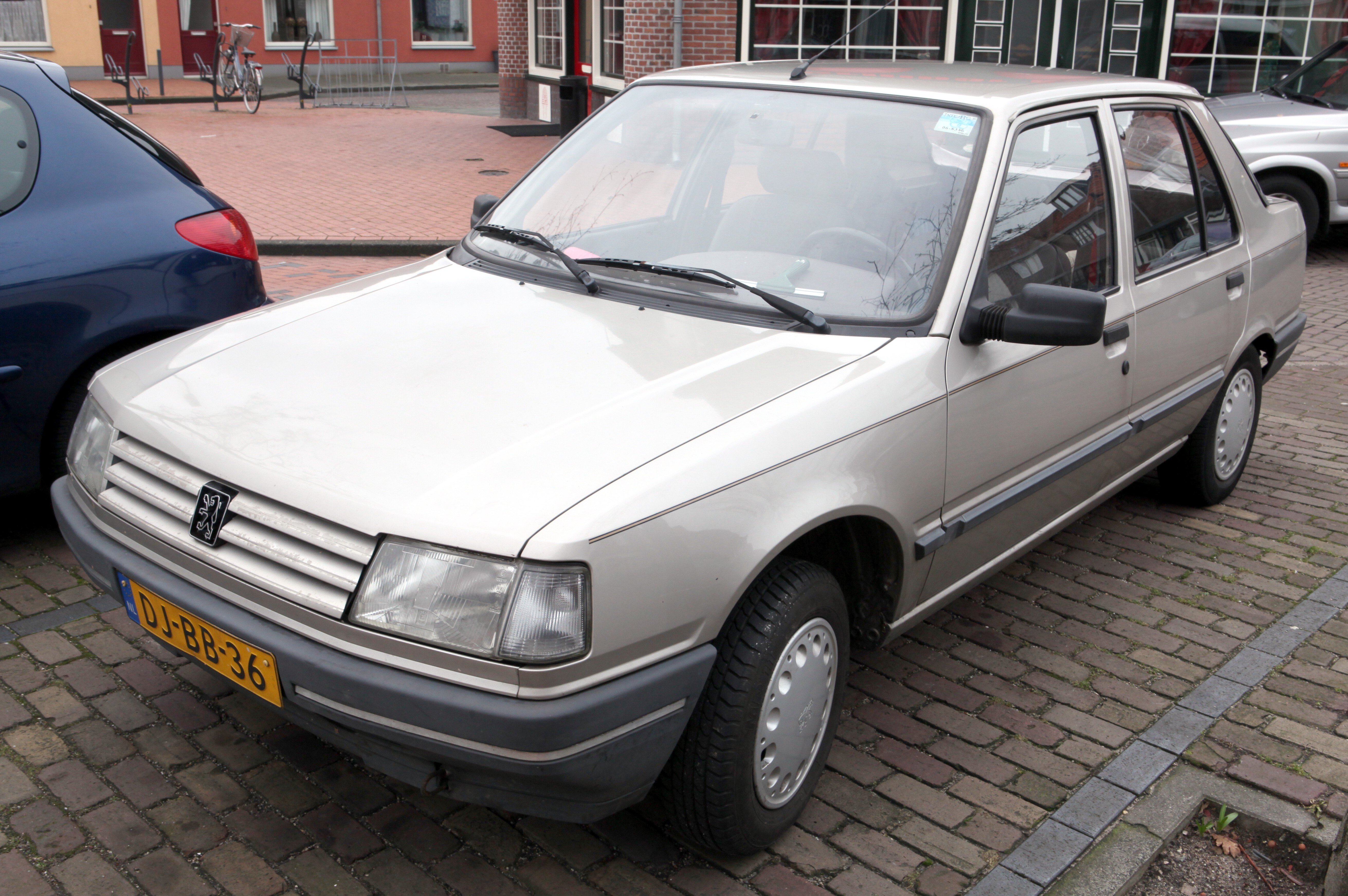 Peueot 309 GL Profil 1.4